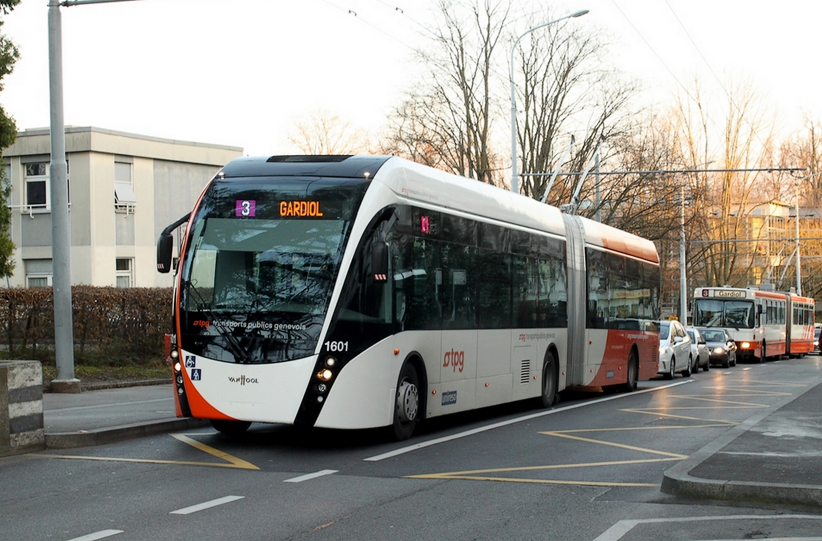 Genève trolleybus 1601 in service on line 3. The vehicle is a 2013-built Van Hool ExquiCity 18 trolleybus. An older, high-floor trolleybus is visible in the background.